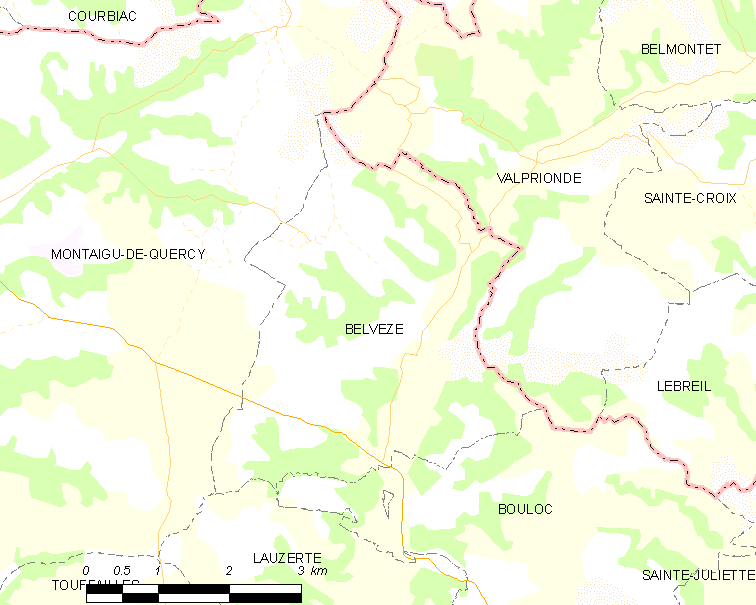 Map of French municipality Belvèze